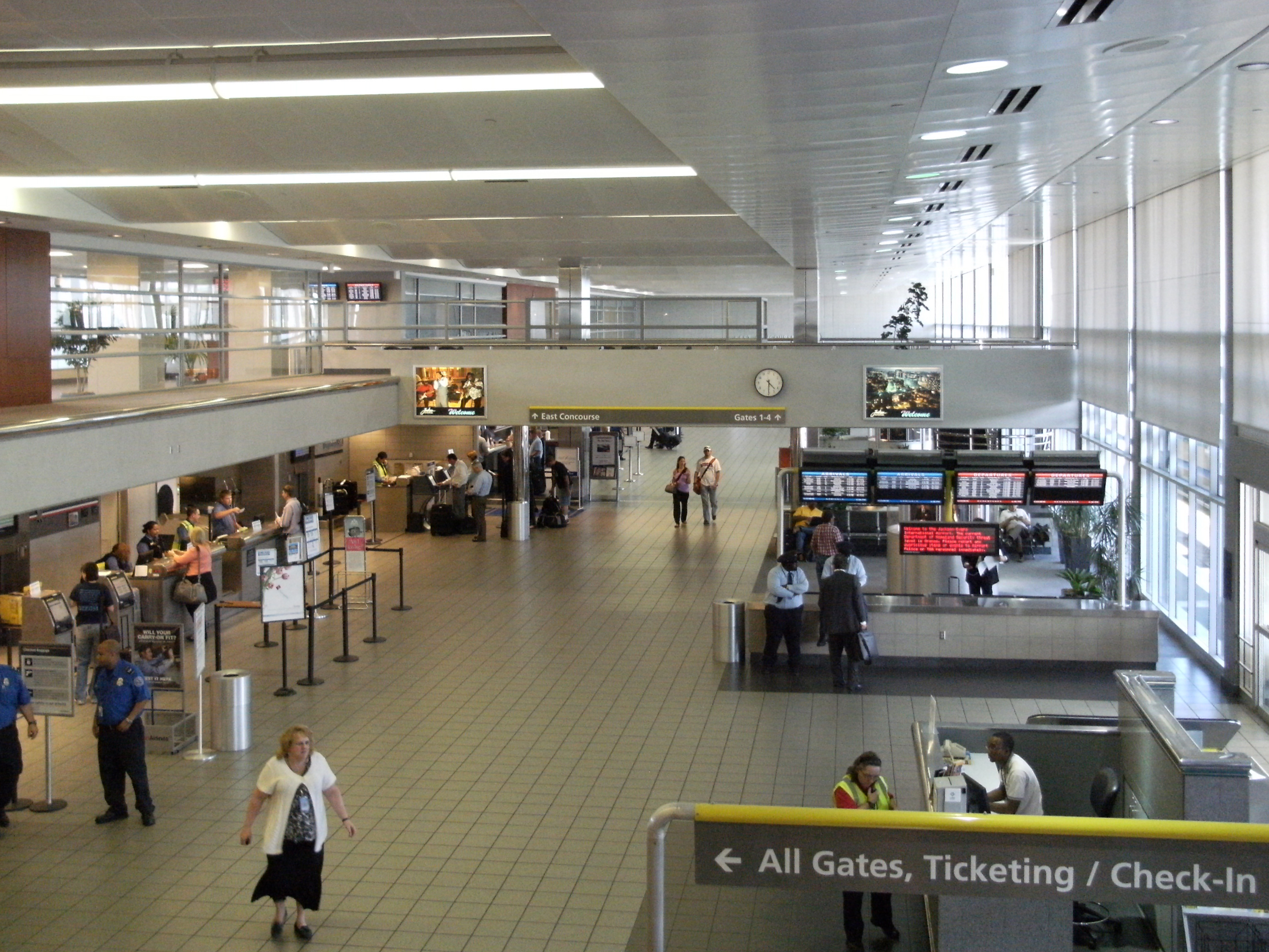 Jackson-Evers International Airport main departures and ticketing hall, Sept 2010